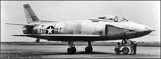 A North American YF-93. Taken from [1] and uploaded for use in that article by me. -Lommer